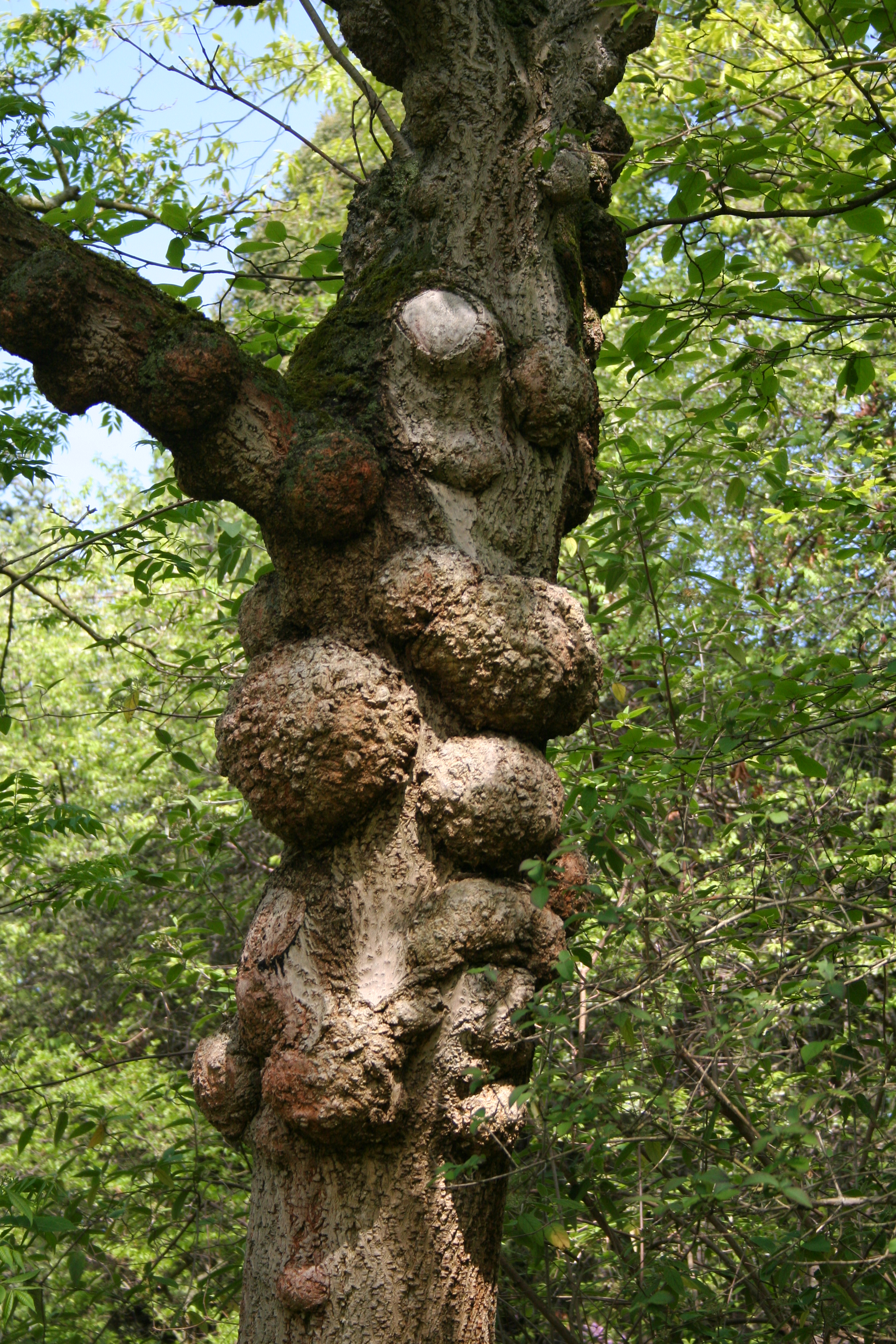 Phellodendron amurense, Bot. Garden of the University of Frankfurt